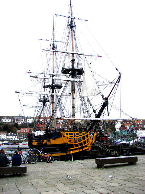 The Frigate 'Grand Turk', Whitby Harbour This square rigged sailing ship is famous for being the vessel used in the filming of the 'Hornblower' series of television programmes.